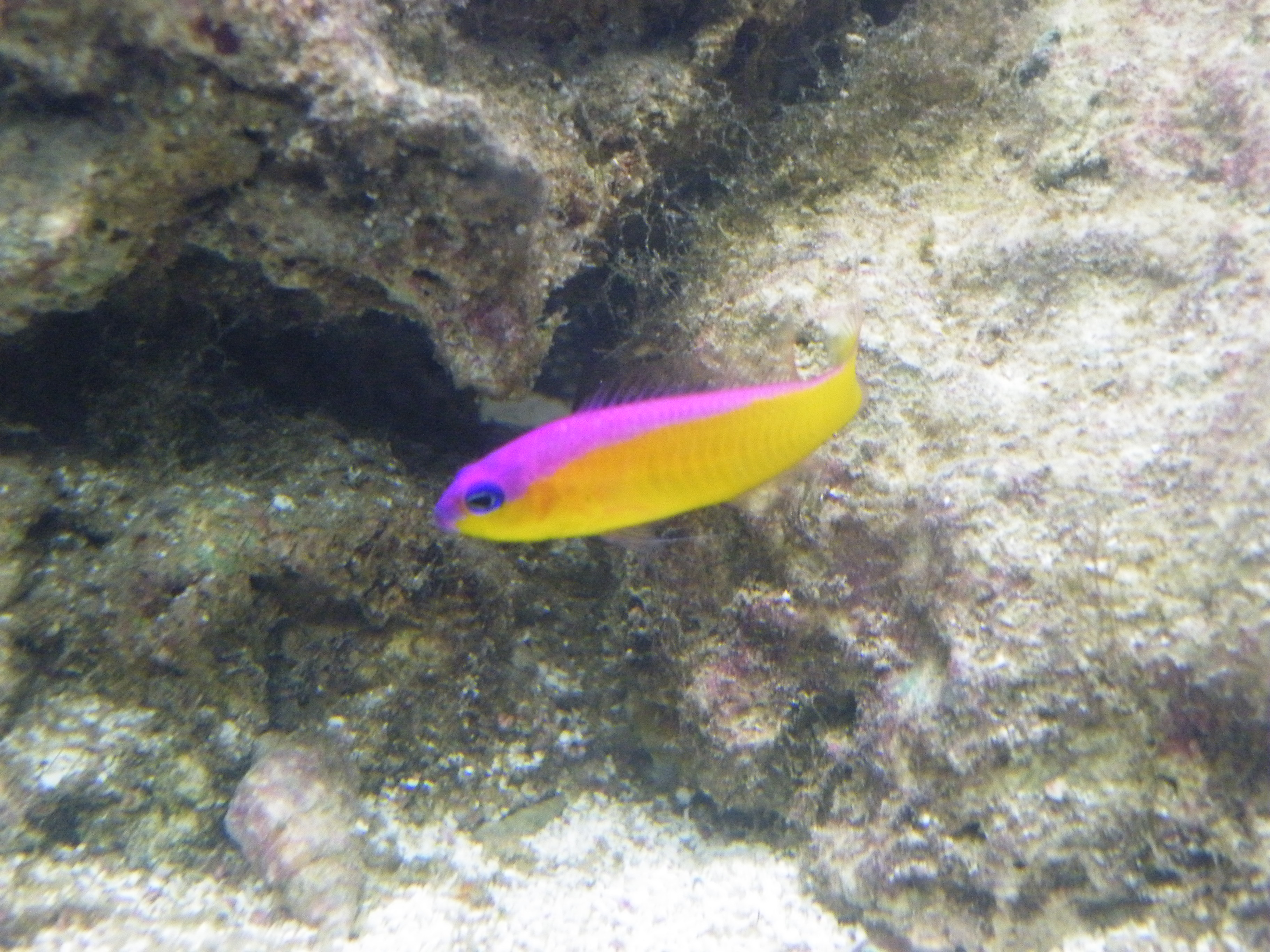 My Pictichromis diadema, Larry.